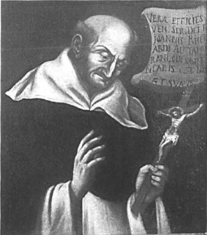 Giovanni Ricciardi - Painting stored at "Archivio Biblioteca Museo Civico" - Altamura - 17th century